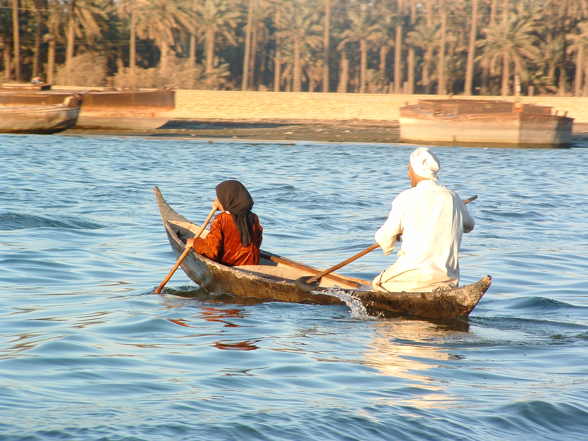 A man and women make their way up the Euphrates in Basra, Iraq